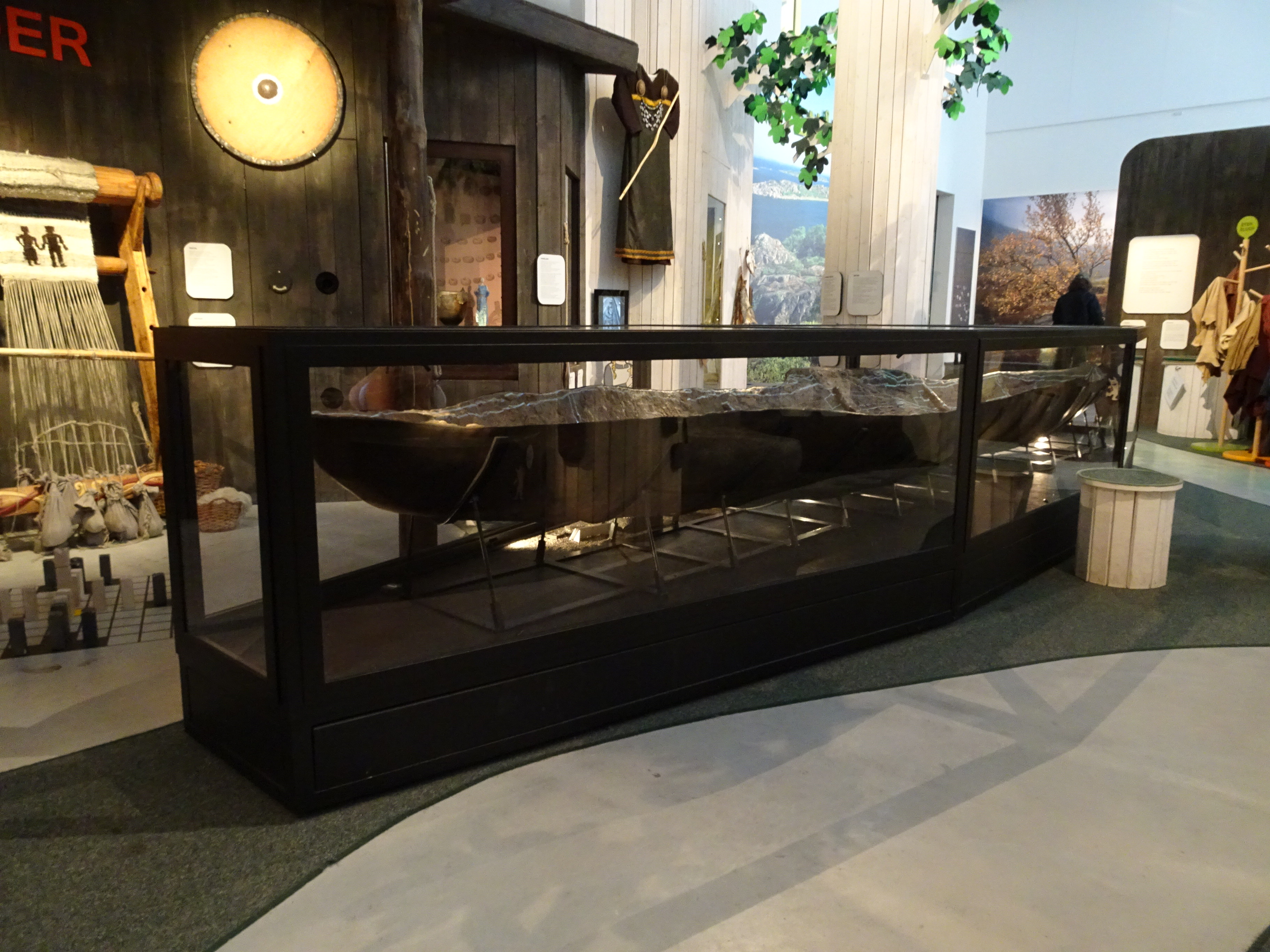 Tunabåten from a ship burial in Tuna near Västerås in Sweden. It is restored and displayed at the Västmanlands läns museum in Västerås, Sweden.